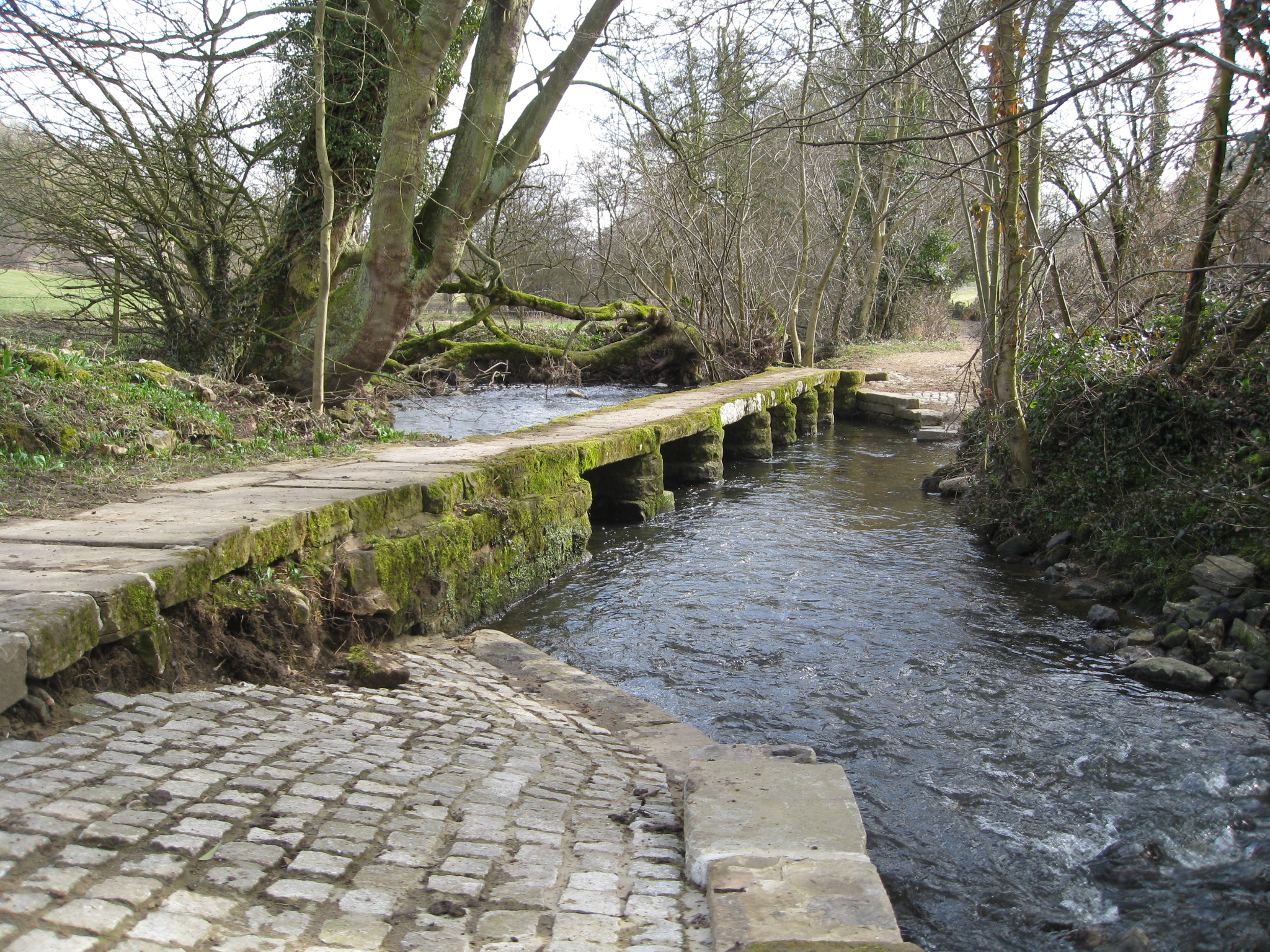 Clapper Bridge. Old Clapper footbridge over the river Amber, of a type usually built in Medieval times. The word "Clapper" is taken from an Anglo-Saxon word meaning 'Bridging the Stepping Stones'. More detail is shown in 1772616.